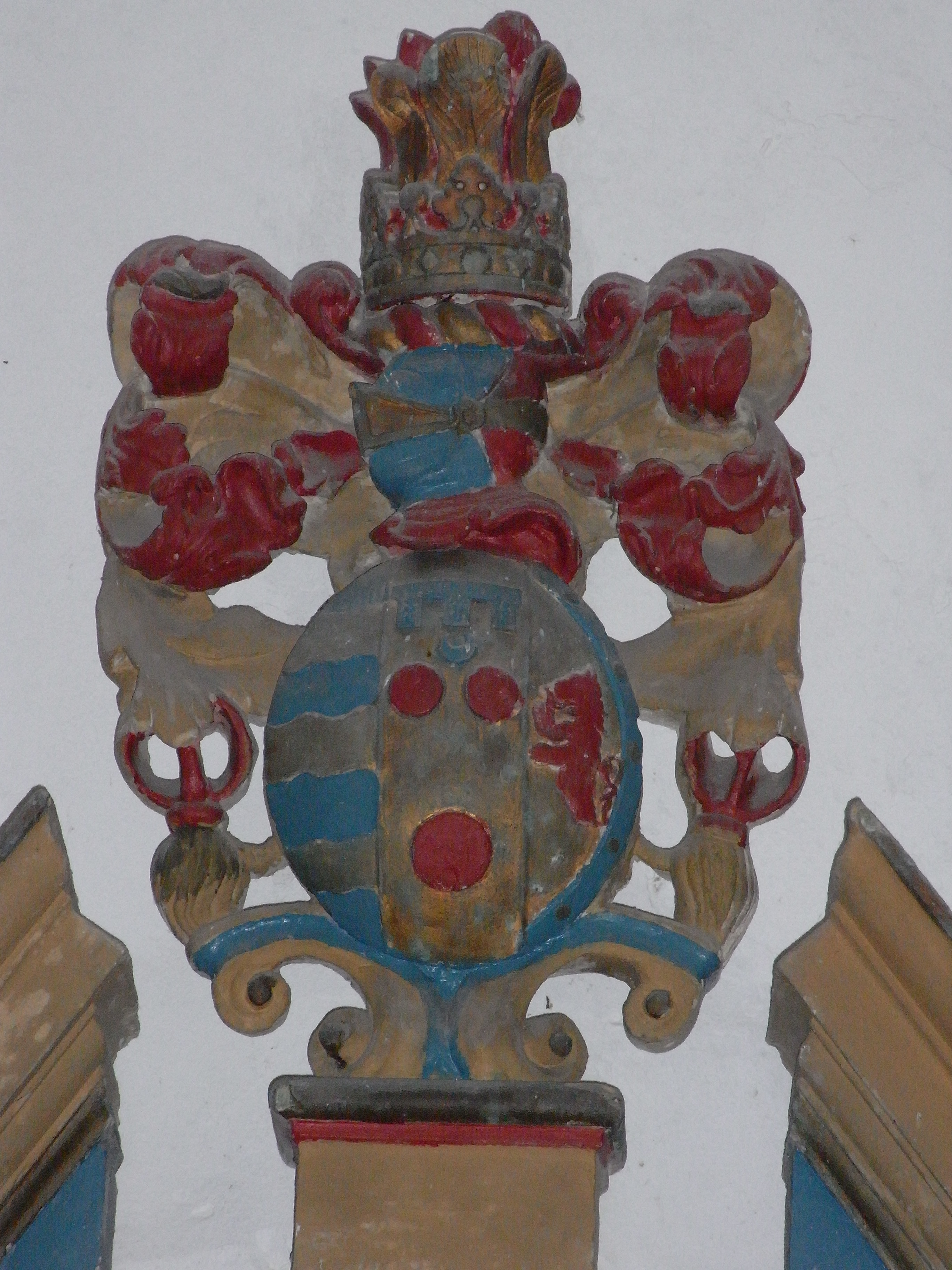 Crest of mural monument to James Courtenay(d.1683), Meshaw Church, Devon. A triple impalement: centre: Or, 3 torteaux a label of 3 points azure each point charged with 3 roundels in pale, differenced by a crescent azure (Courtenay of Molland, differenced for a second son); Dexter: Azure, 3 bars wavy argent (Sandford); Sinister: Or, a demi-lion rampant gules[1] (Lynn). Crest: Out of a ducal coronet or, a plume of 7 ostrich feathers 4 and 3 argent (Courtenay)[2]. References ↑ Robson, Thomas, The British Herald, gives Lynn with tinctures reversed: Gules, a demi-lion rampant or ↑ Debrett's Peerage, 1968, p.353, Courtenay Earls of Devon